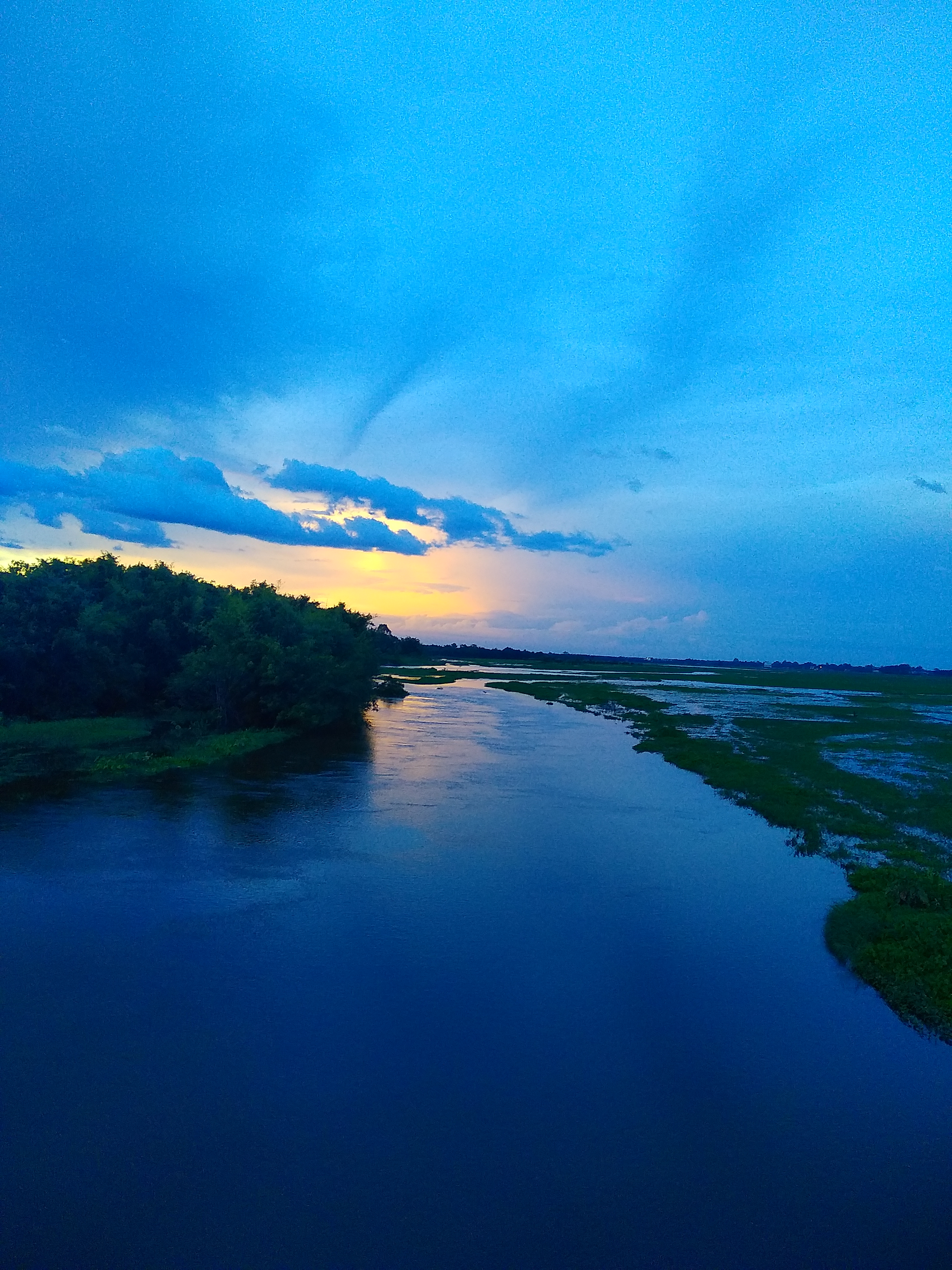 Picture of kari kosi river during monsoon season taken on 5th August.